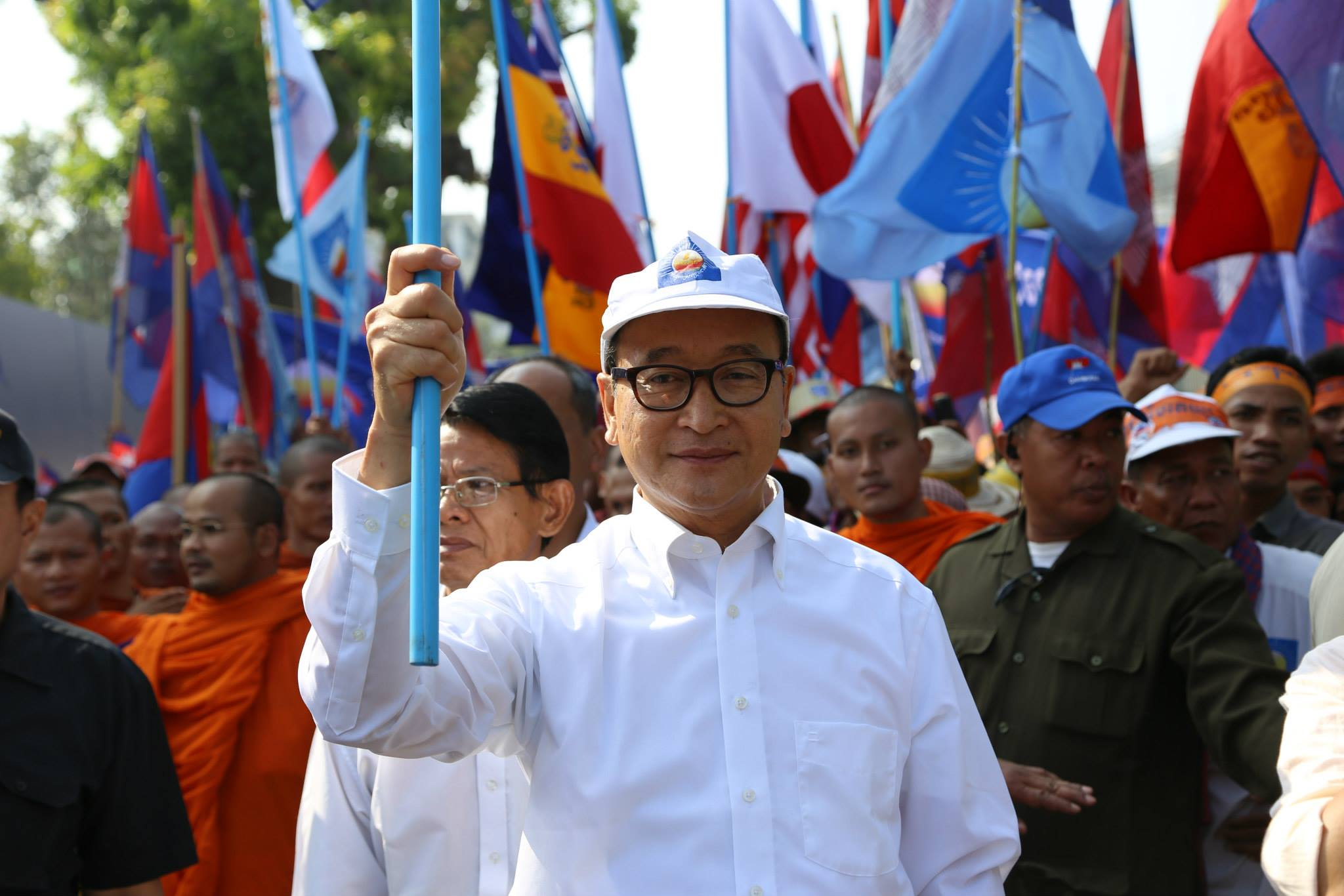 Opposition leader Sam Rainsy leads supporters to submit petitions to Western embassies calling for an independent investigation into alleged election irregularities, Phnom Penh, Oct 24, 2013. (Heng Reaksmey/VOA Khmer)